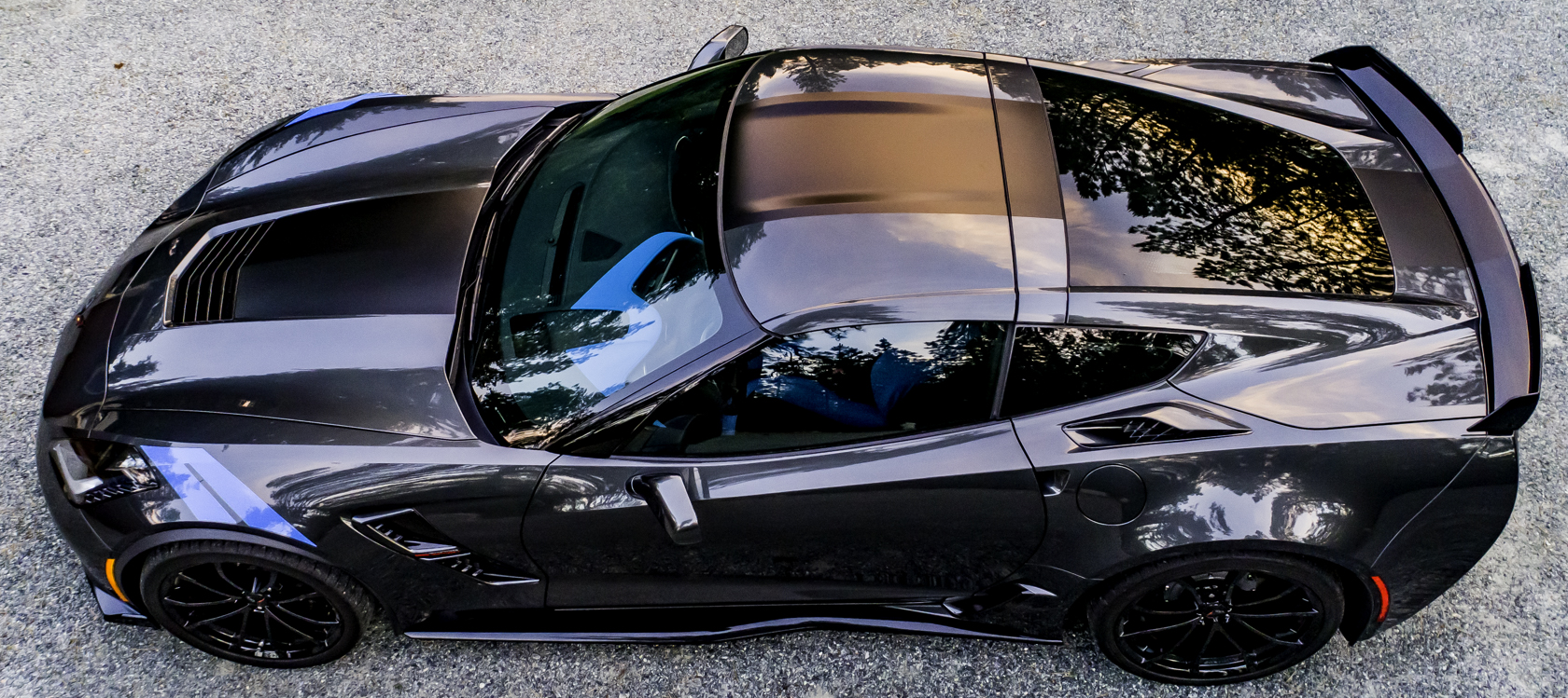 2017 Corvette Collector Edition Number 43 Aerial Profile. Shot with a drone